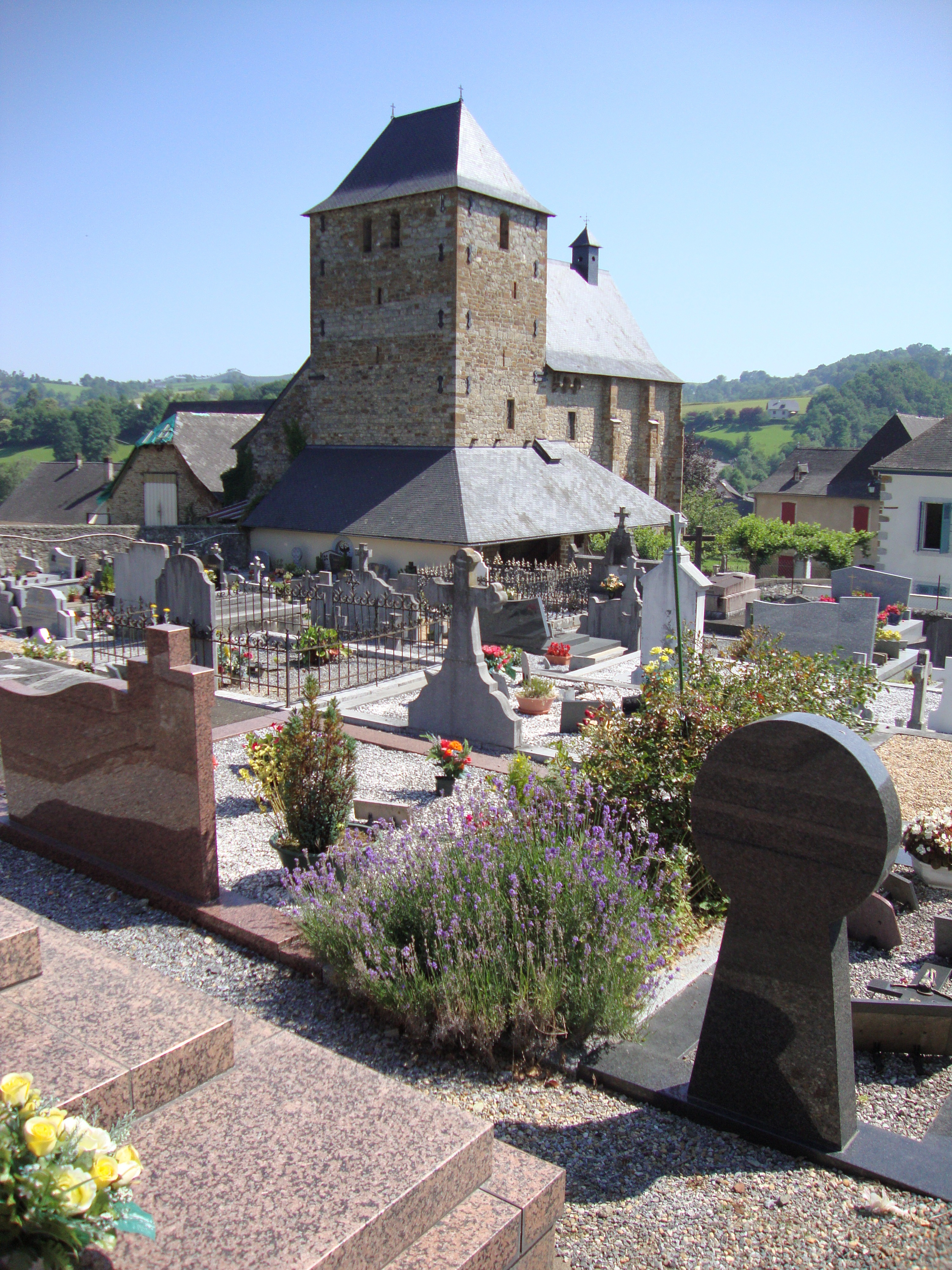 Montory (Pyr-Atl, Fr) church tower and cemetery